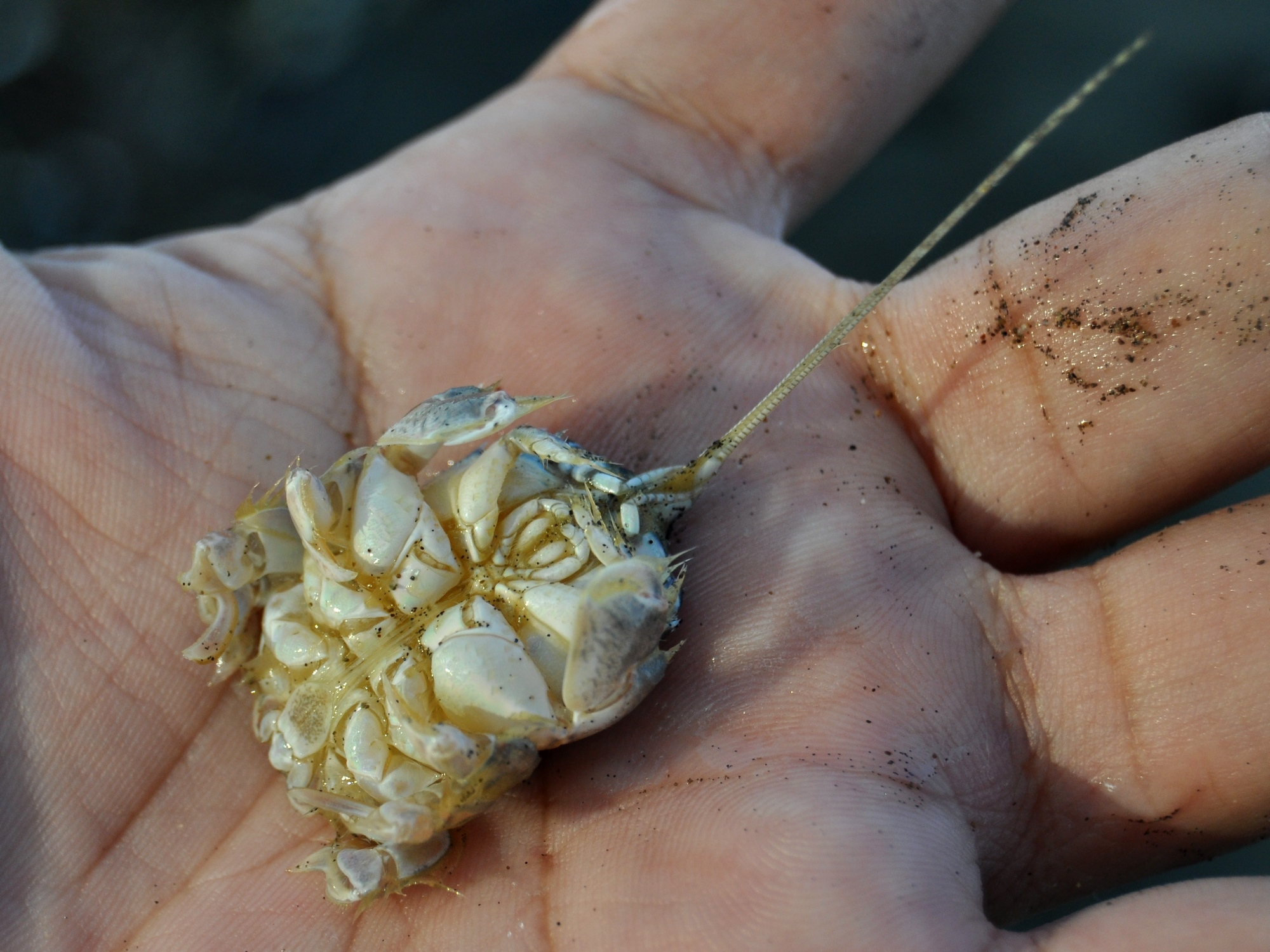 Mole crabs, Albunea symmysta (carapace length 19mm), ventral view. Palabuhanratu, West Java, Indonesia.